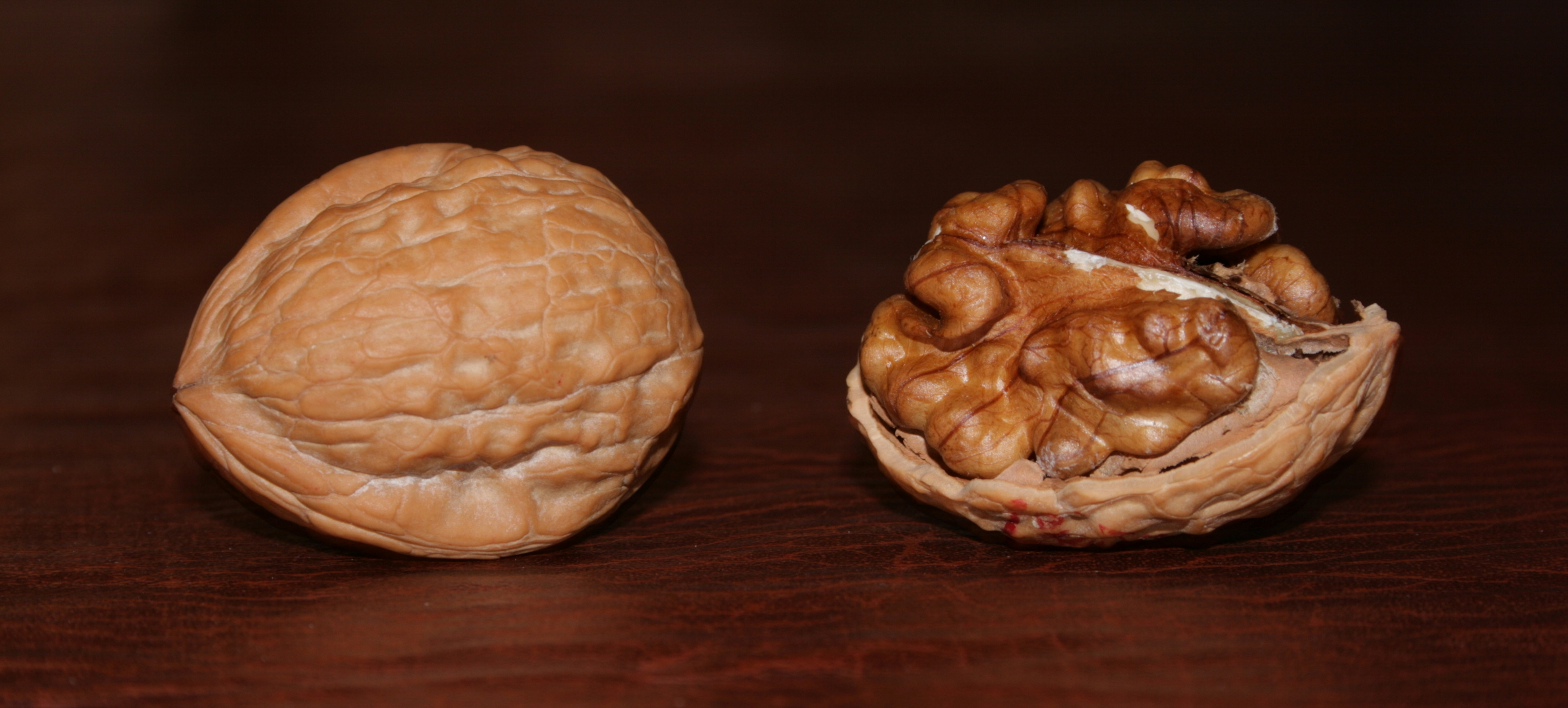 Two Juglans regia walnuts.